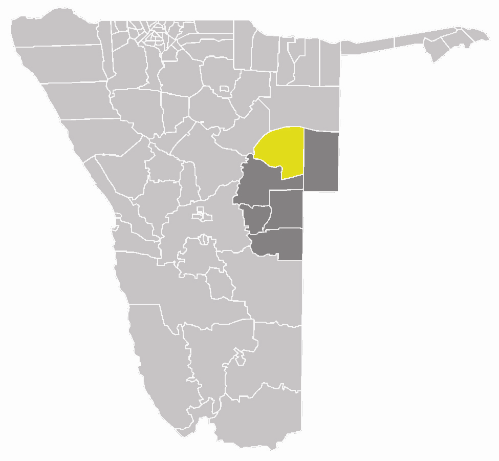 map of the Otjinene constituency within the Omaheke region, Namibia